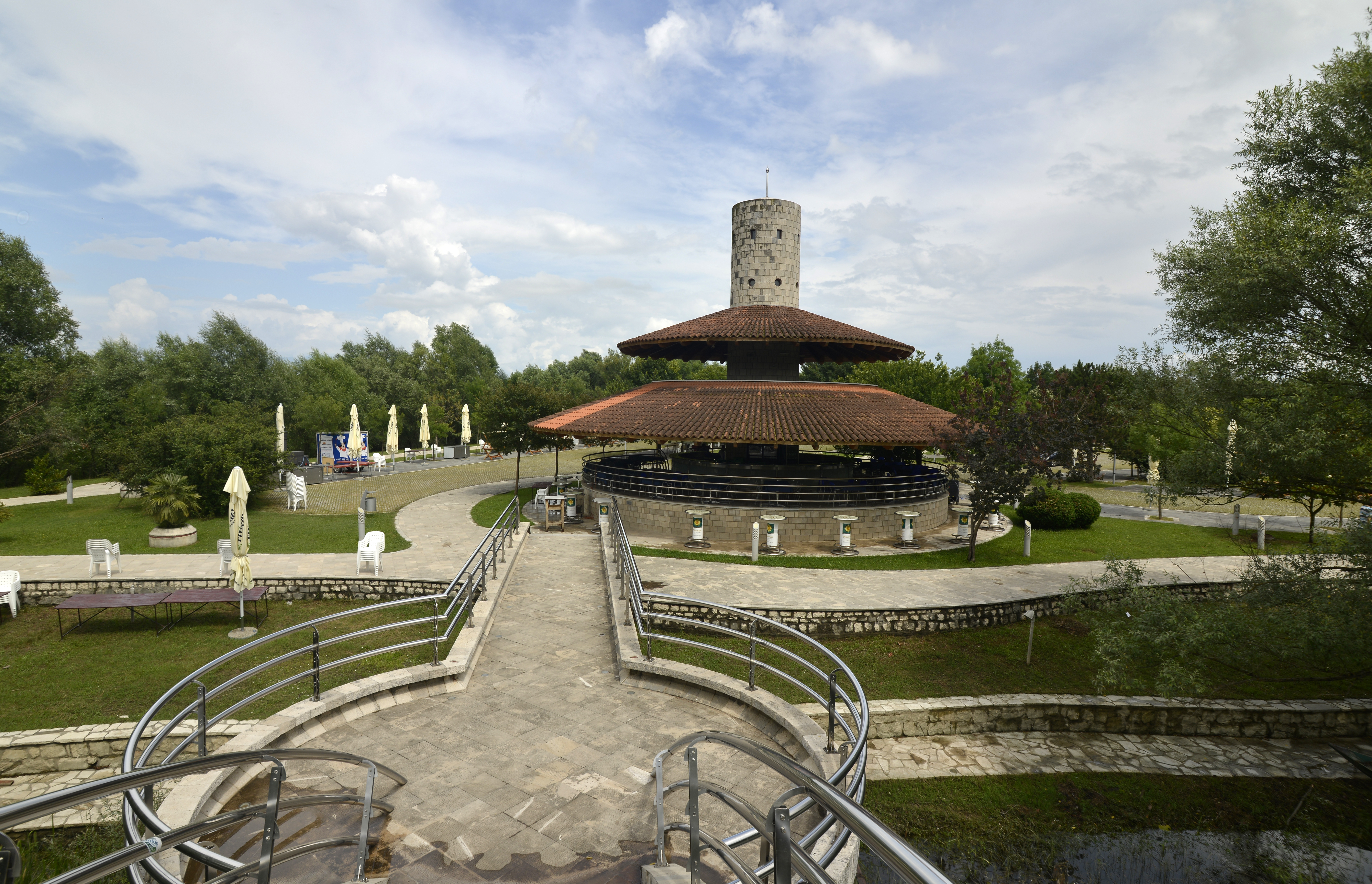 Plavnica Eco Resort, Skadar Lake National Park, Montenegro